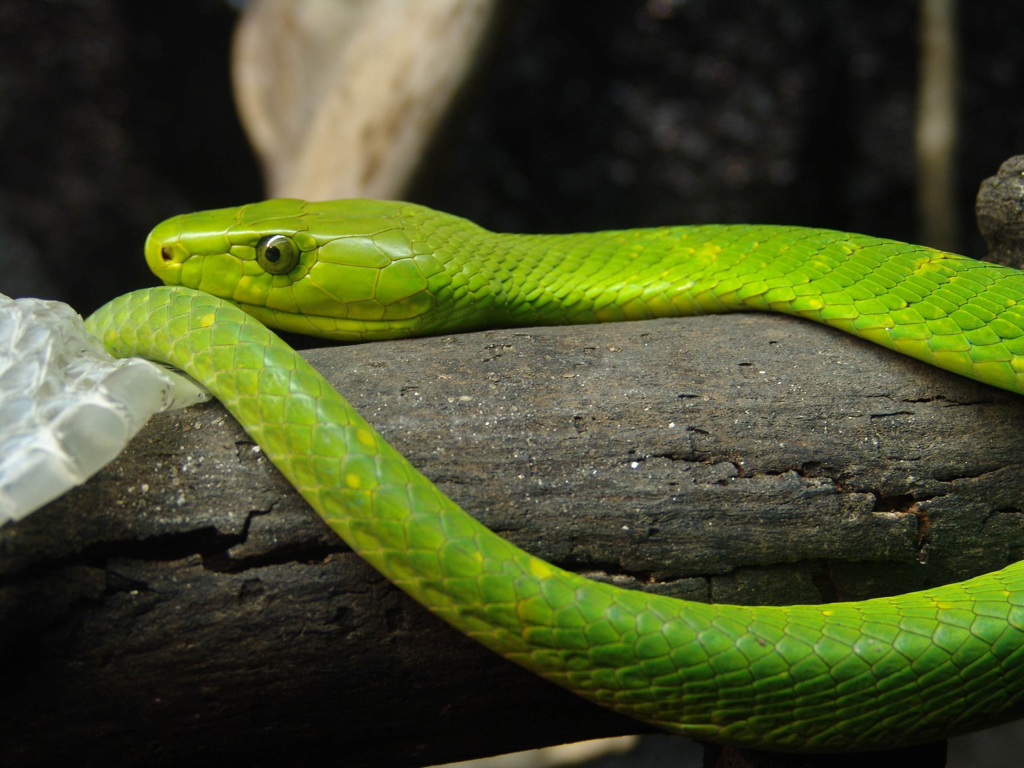 Eastern green mamba at Wilmington's Serpentarium.